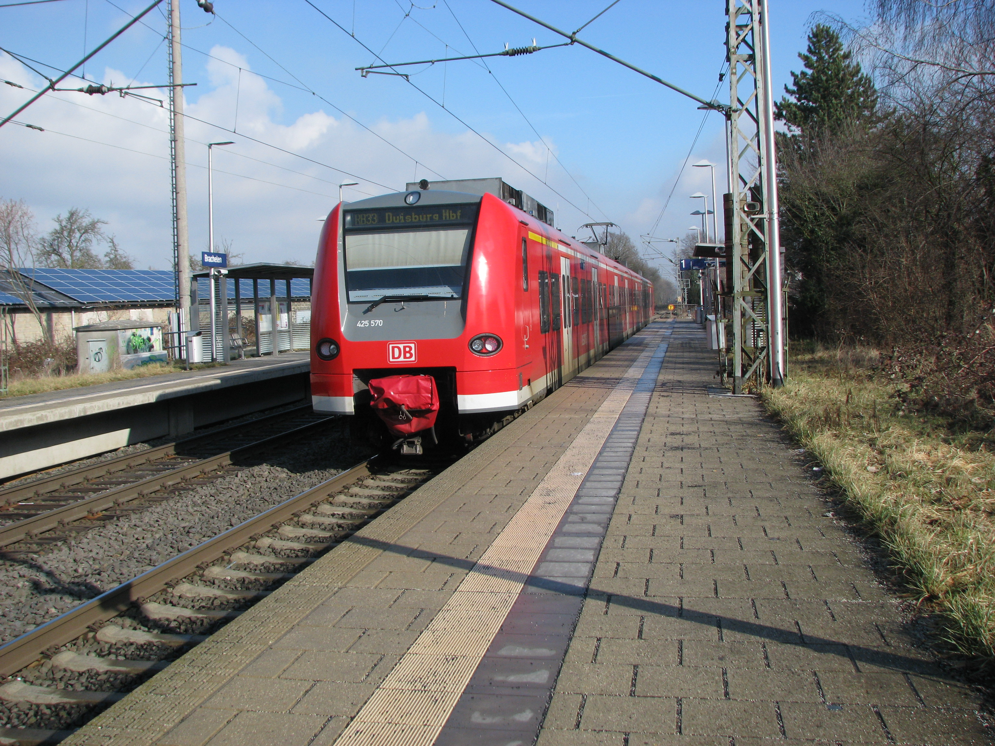 Brachelen Station - platform with DBAG Class 425 as Regionalbahn RB33 -Rhein-Niers-Bahn to Duisburg Central Station